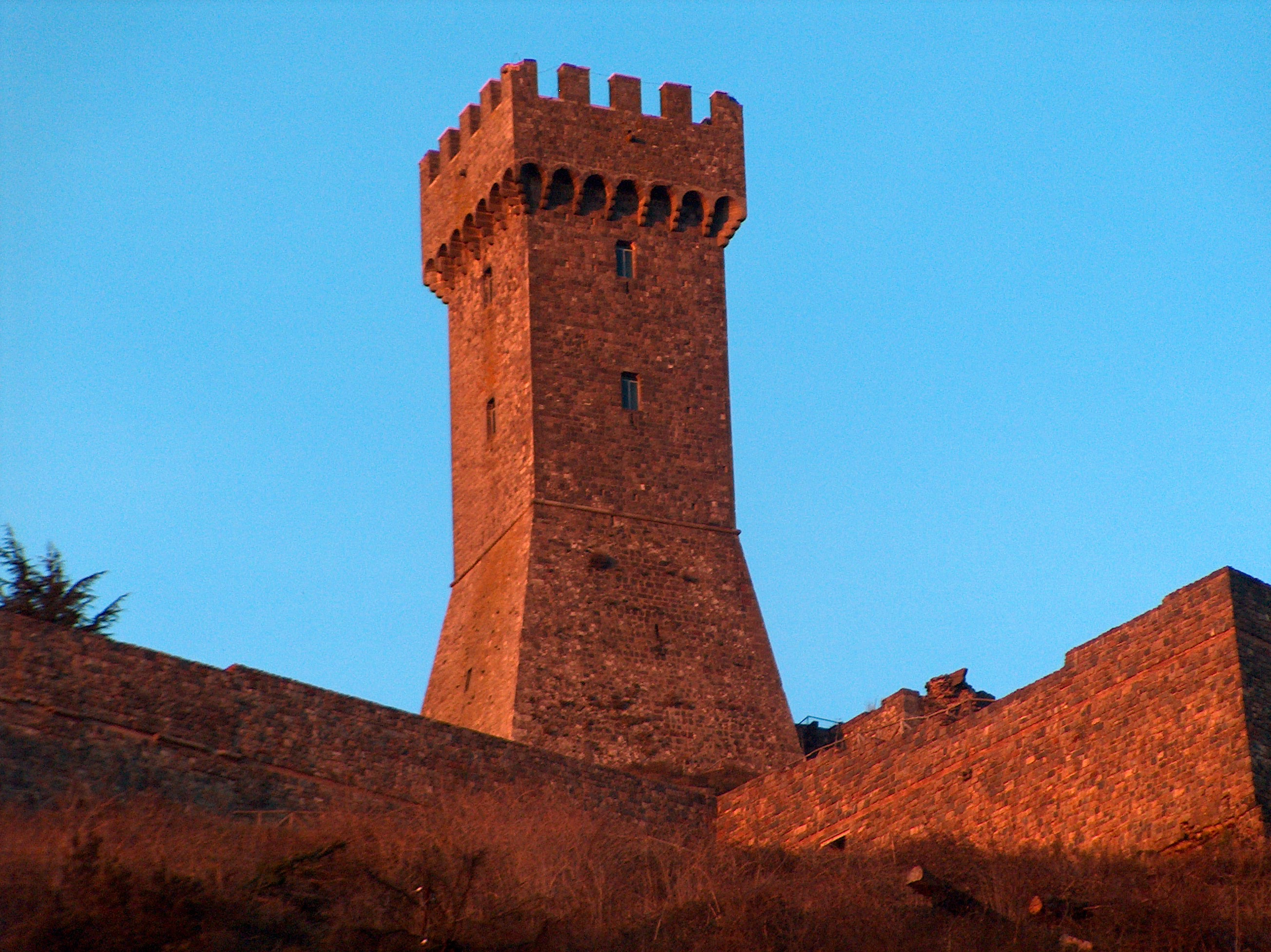 The castle at sunset - the tower